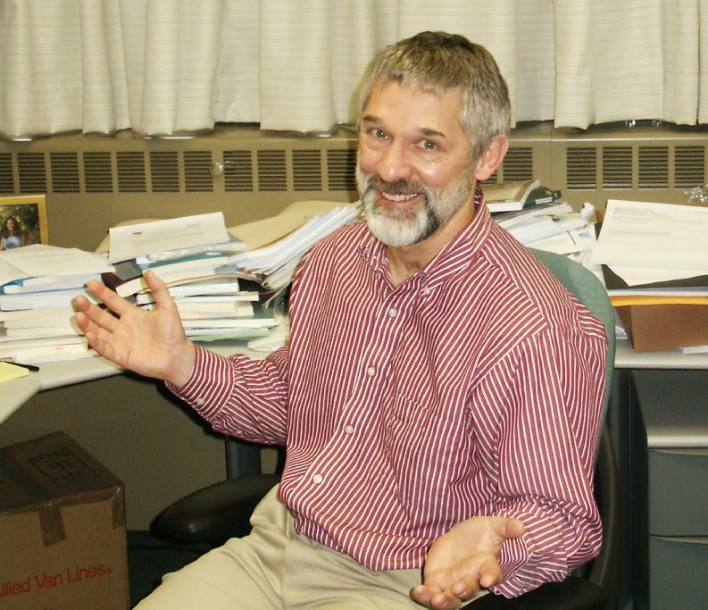 Photo taken by Branislav Ondrasik